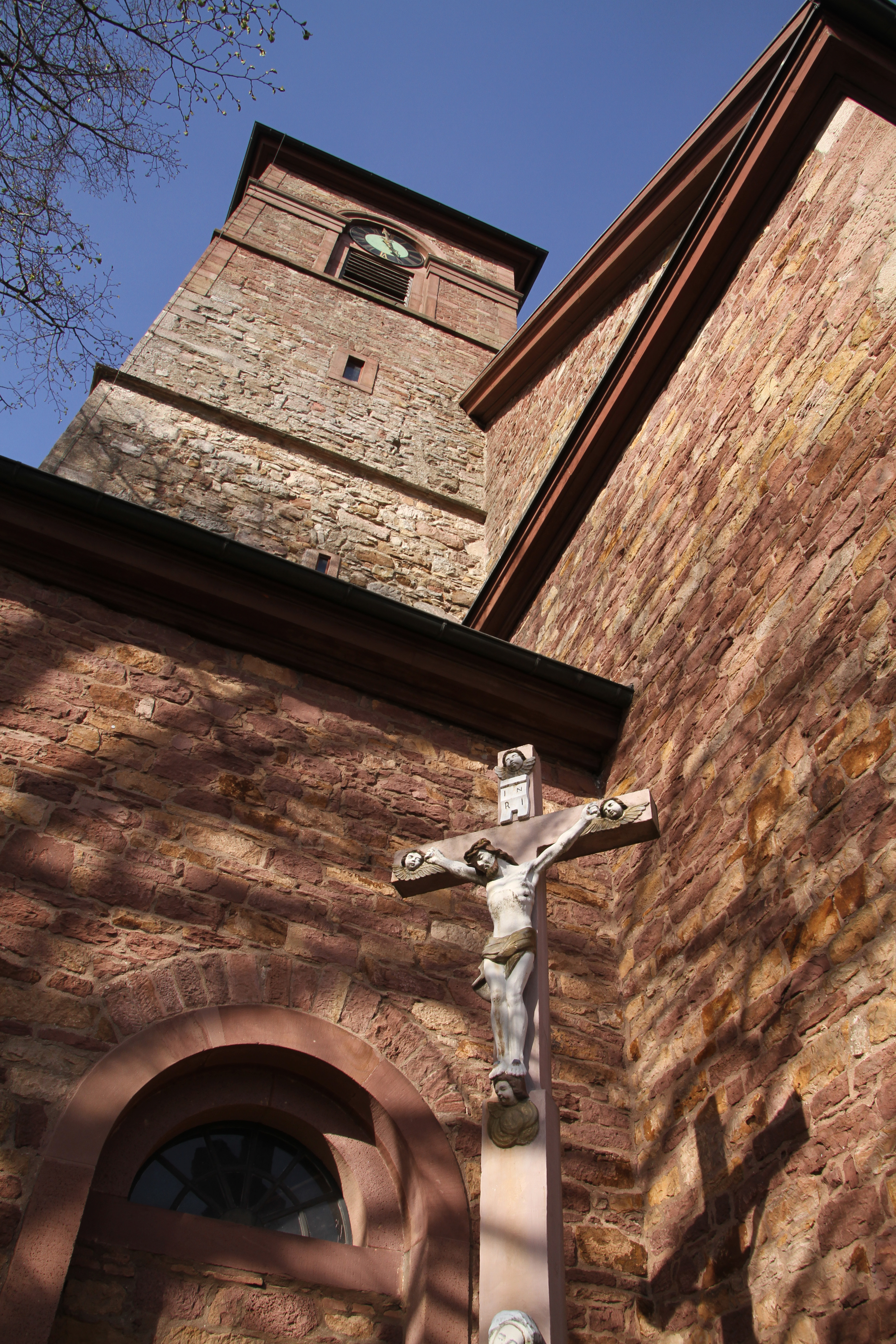 Church of St. Birgitta in Iffezheim.